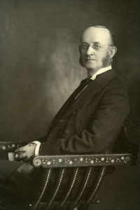 Portrait of John Blackford Van Meter, co-founder of Goucher College